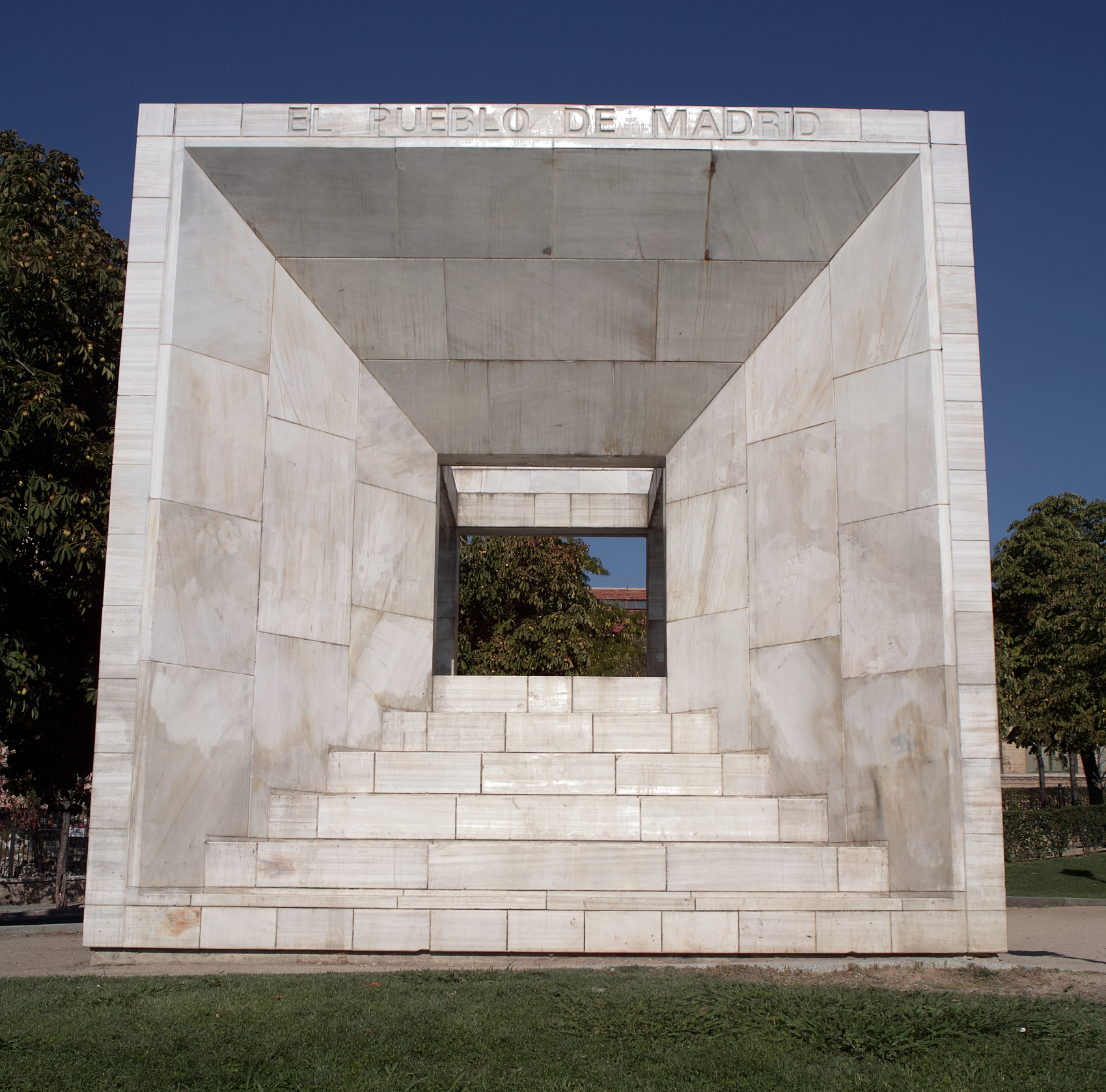 Spanish Constitution of 1978 Memorial in Madrid